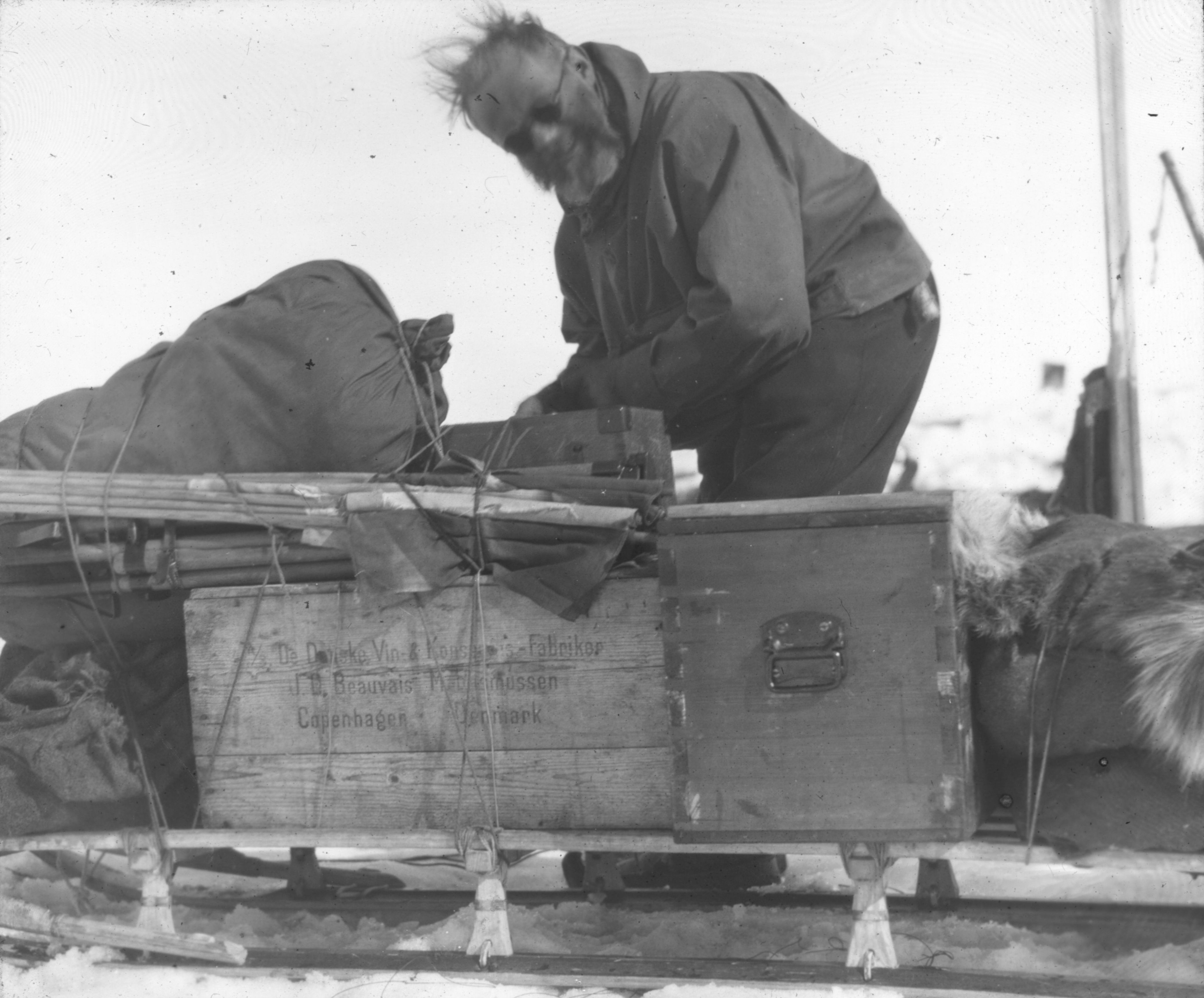 Photographs of the German expedition and overwintering in Greenland in 1930/31